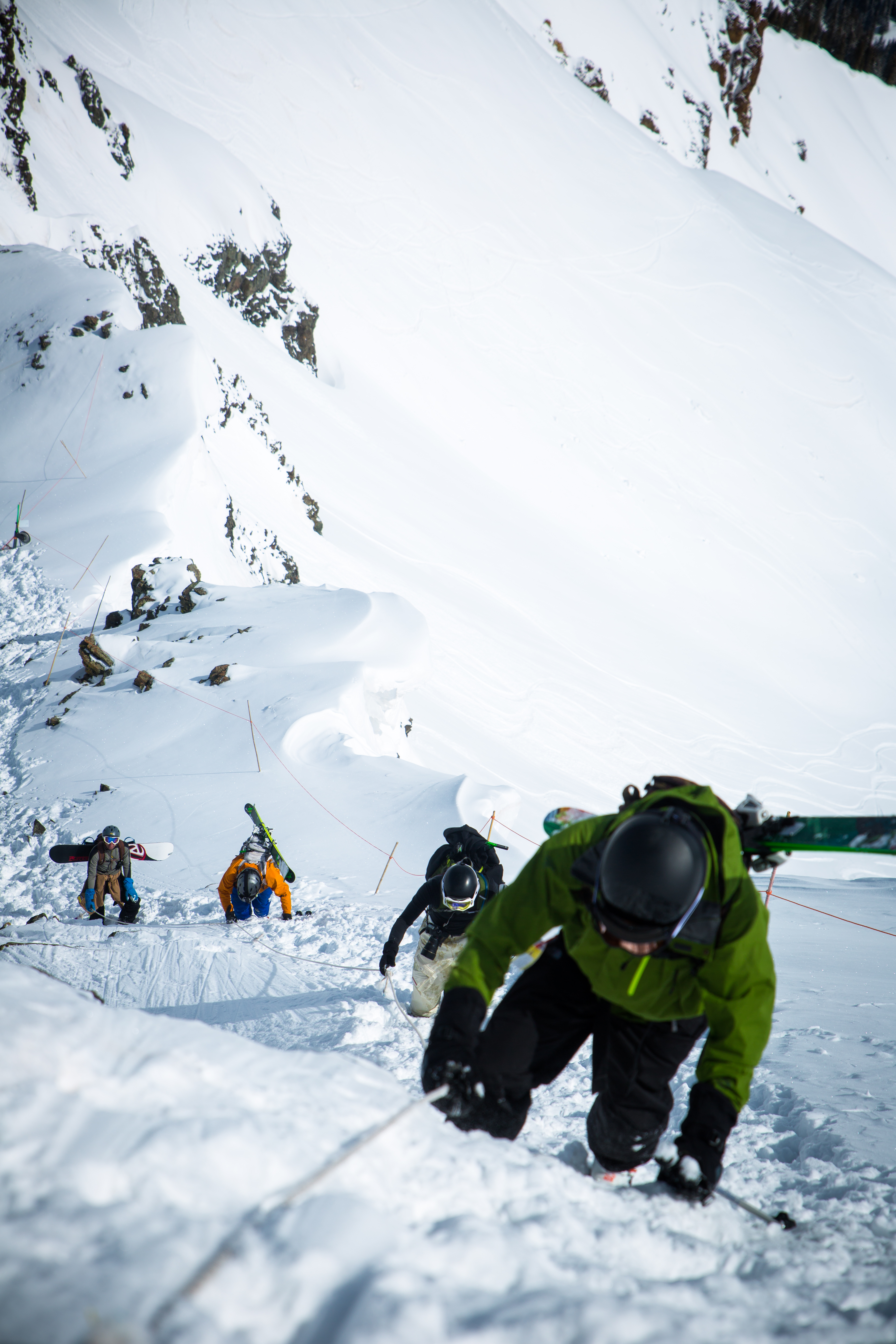 Last leg of the hike up to Silverton Mountain's (in)famous billboard, up at around 13,500 feet. The lift drops you off way below that, and I'd say this hike is the most grueling and rewarding part of the entire Silverton experience. Its gnarly at times, and epic always. Plus you're hiking to ski from a 13.5K peak, IN BOUNDS!! I've said it before, but god dammit Silverton Mountain is amazing. People complain that "its not that steep", "my home mountain has this one run", "I only shat myself once today, easy stuff". Well this place is cheap, gorgeous, and has nothing but awesome skiing. So sure, go get all torqued over your home mountain's one cornice dropping over a 500 ft chasm and say Silverton is over hyped. I'll spend my 50$ on a place that only has huge lines (on the mountain, for the lift), a killer feel, and where the "resort accommodations" are a sketchy bus to shuttle in and whatever beer you want to drink in the parking lot. Its awesome. Also, sadly this was the last trip that my buddy Pierce Martiin and I got to do before he up and moved to LA. Get back to CO bro!! 2manventure blog post More Places to find me: Zach Dischner Photography | 500px Blog: 2manventure